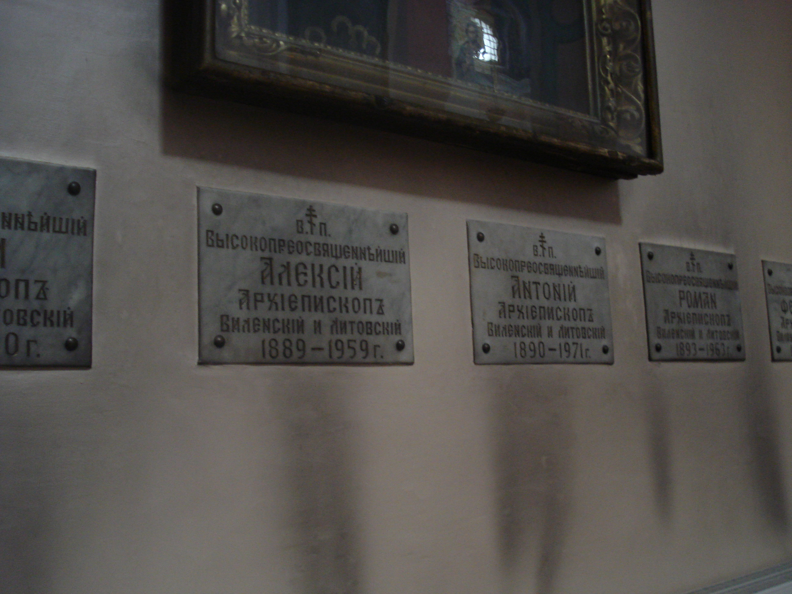 The Orthodox Church of the Holy Spirit in Vilnius (Aušros vartų g. 10). Left nave